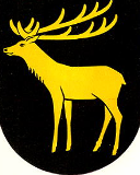 Blazon of Dozwil, Canton of Thurgau, SwitzerlandEsperanto: Blazono de Dozwil, Kantono Turgovio, Svislando